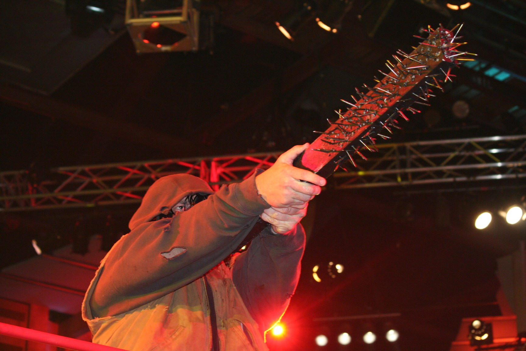 Professional wrestler Abyss holding a board filled with nails, which he calls Janice, at a TNA Impact! taping